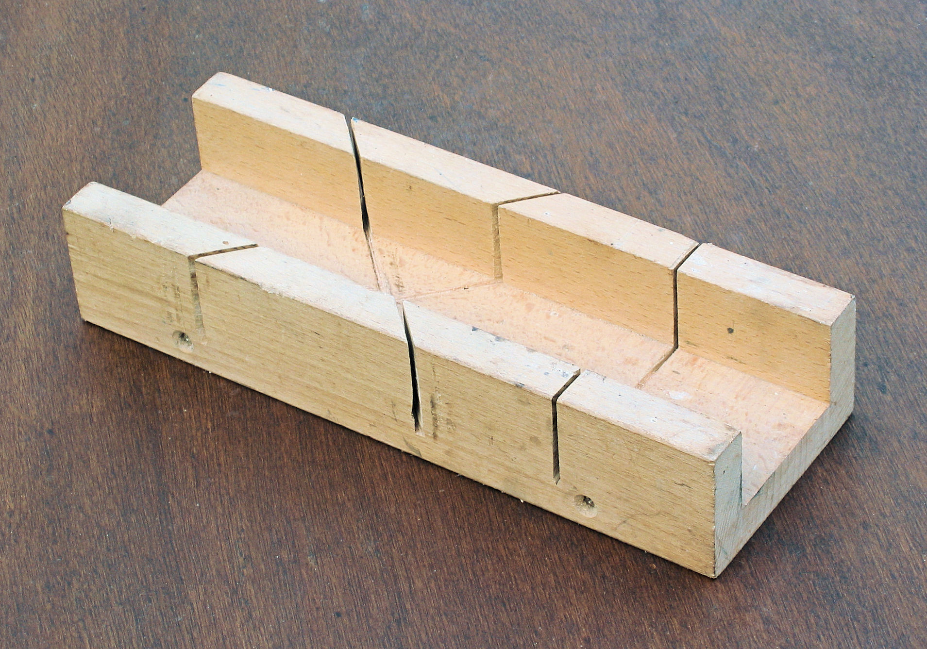 mitre box